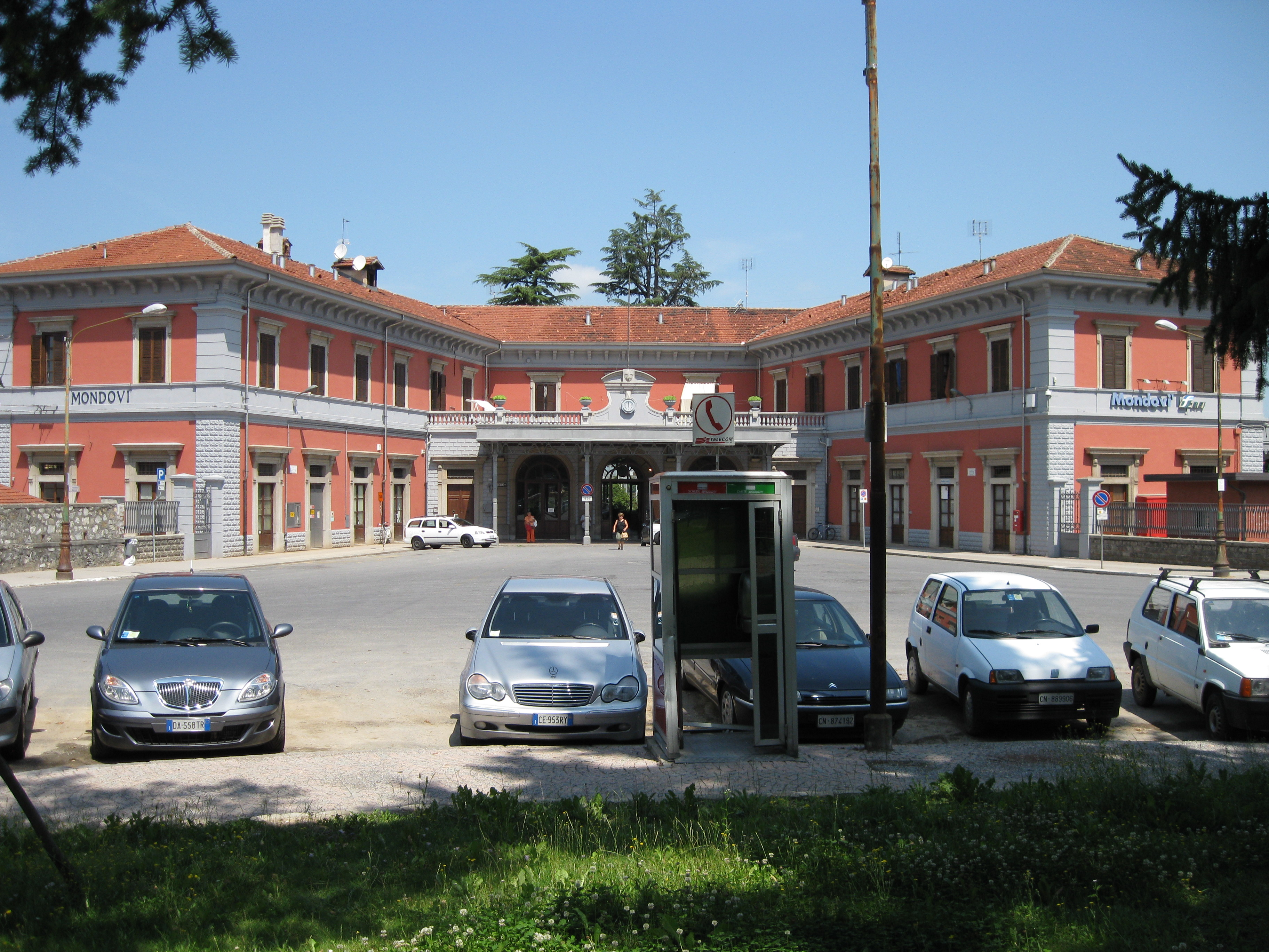 The railway station in Mondovì, Piemonte, Italy